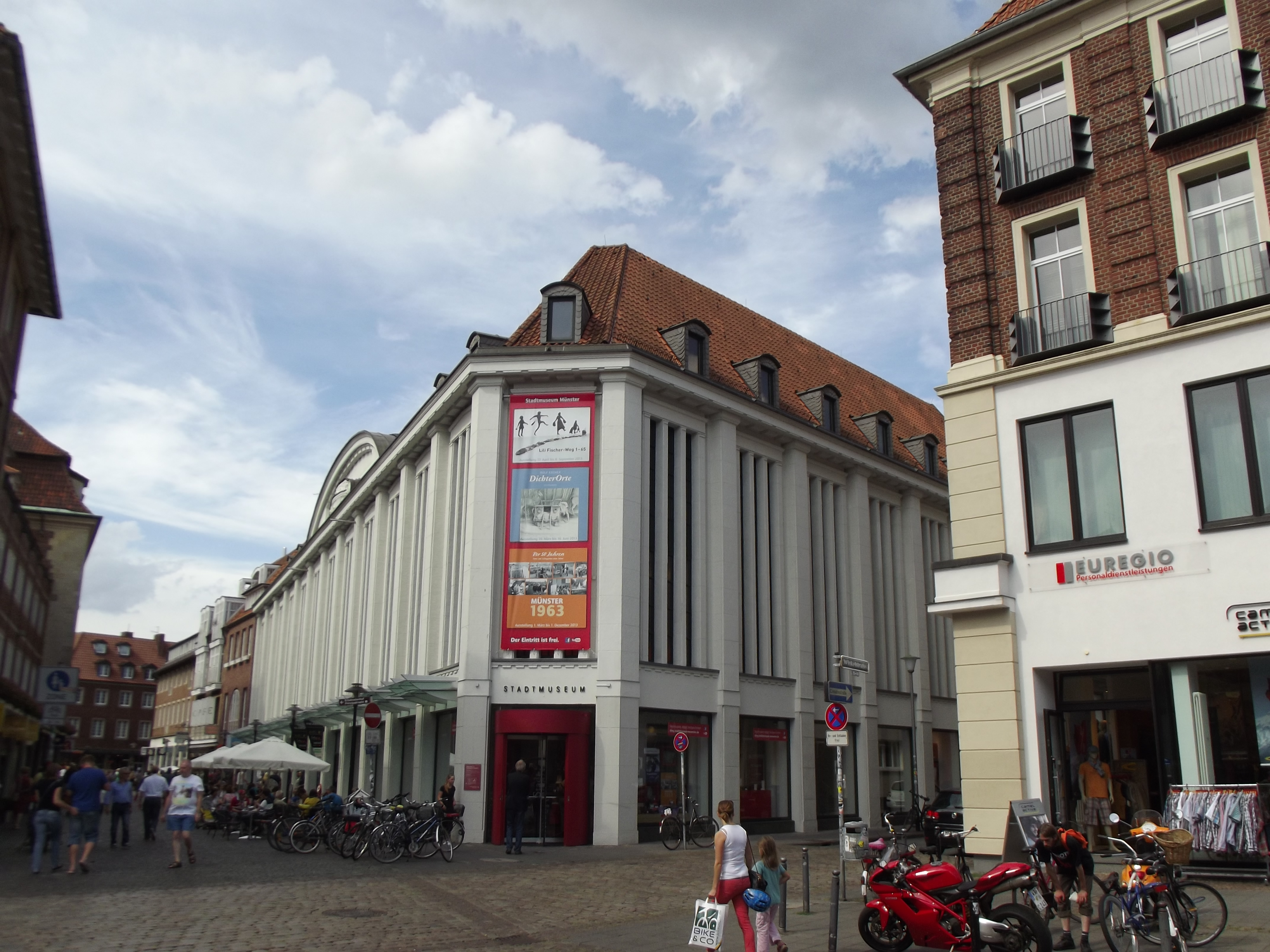 A picture of Münster's official Museum for the town's history as it advertises for ist own exhibitions